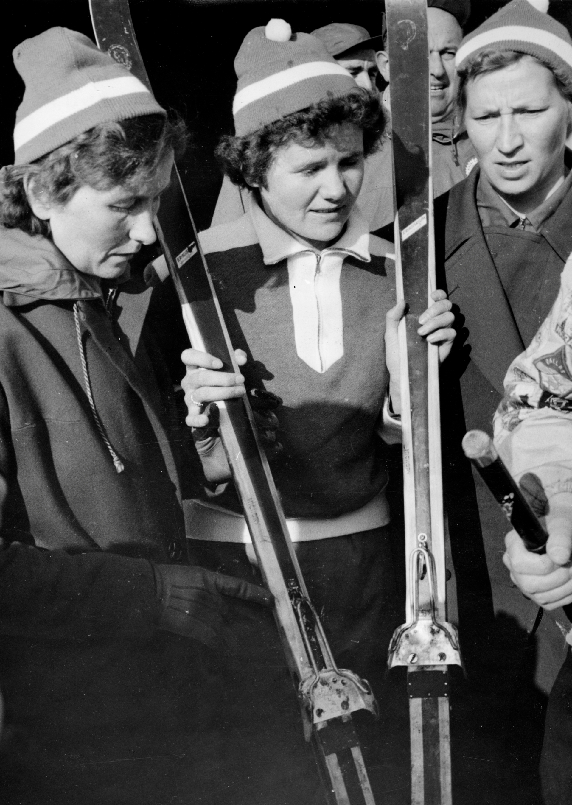 Photograph of the Olympic winners Sirkka Polkunen, Mirja Hietamies, and Siiri Rantanen